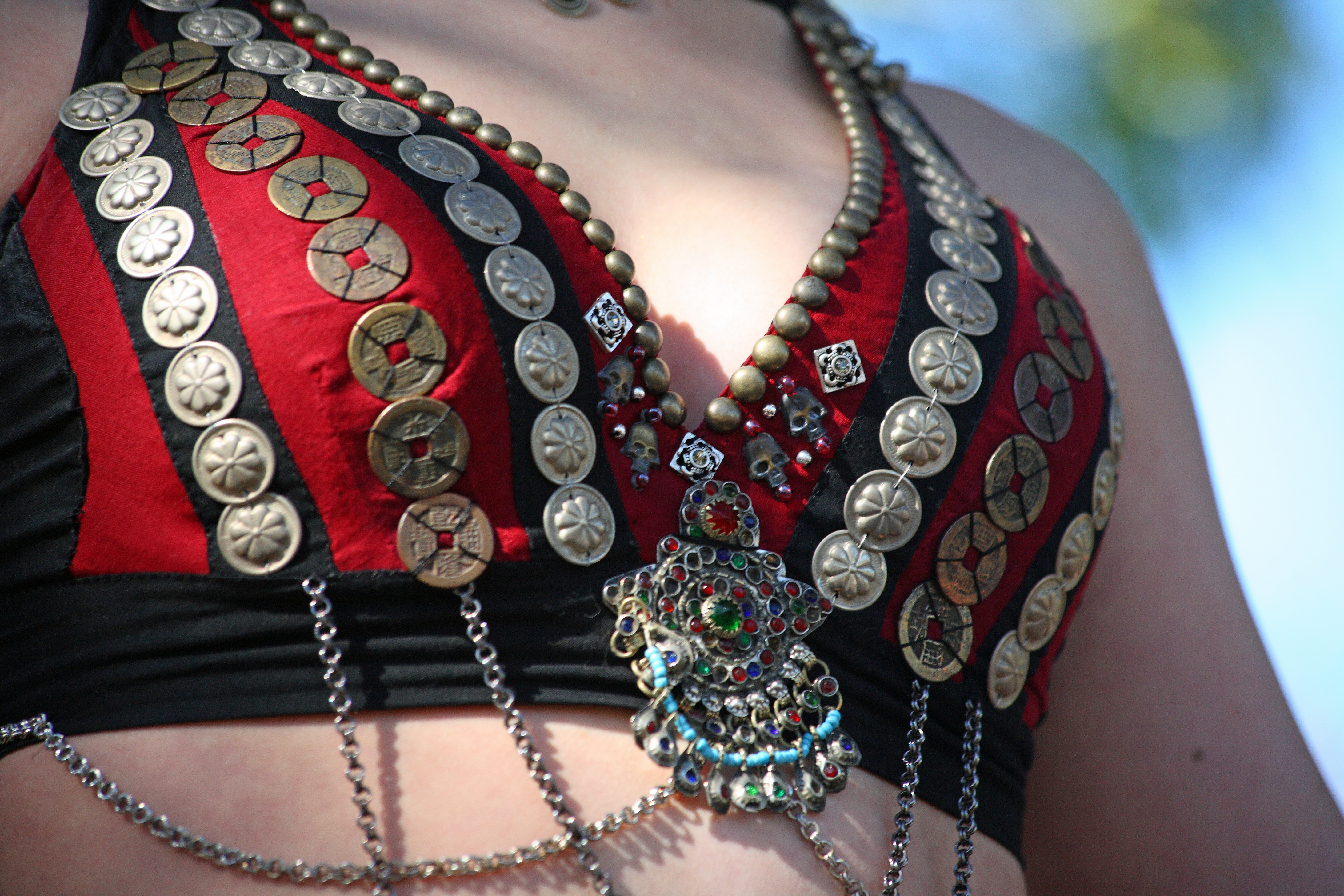 Texas Renaissance Fair (TRF) in November 2010